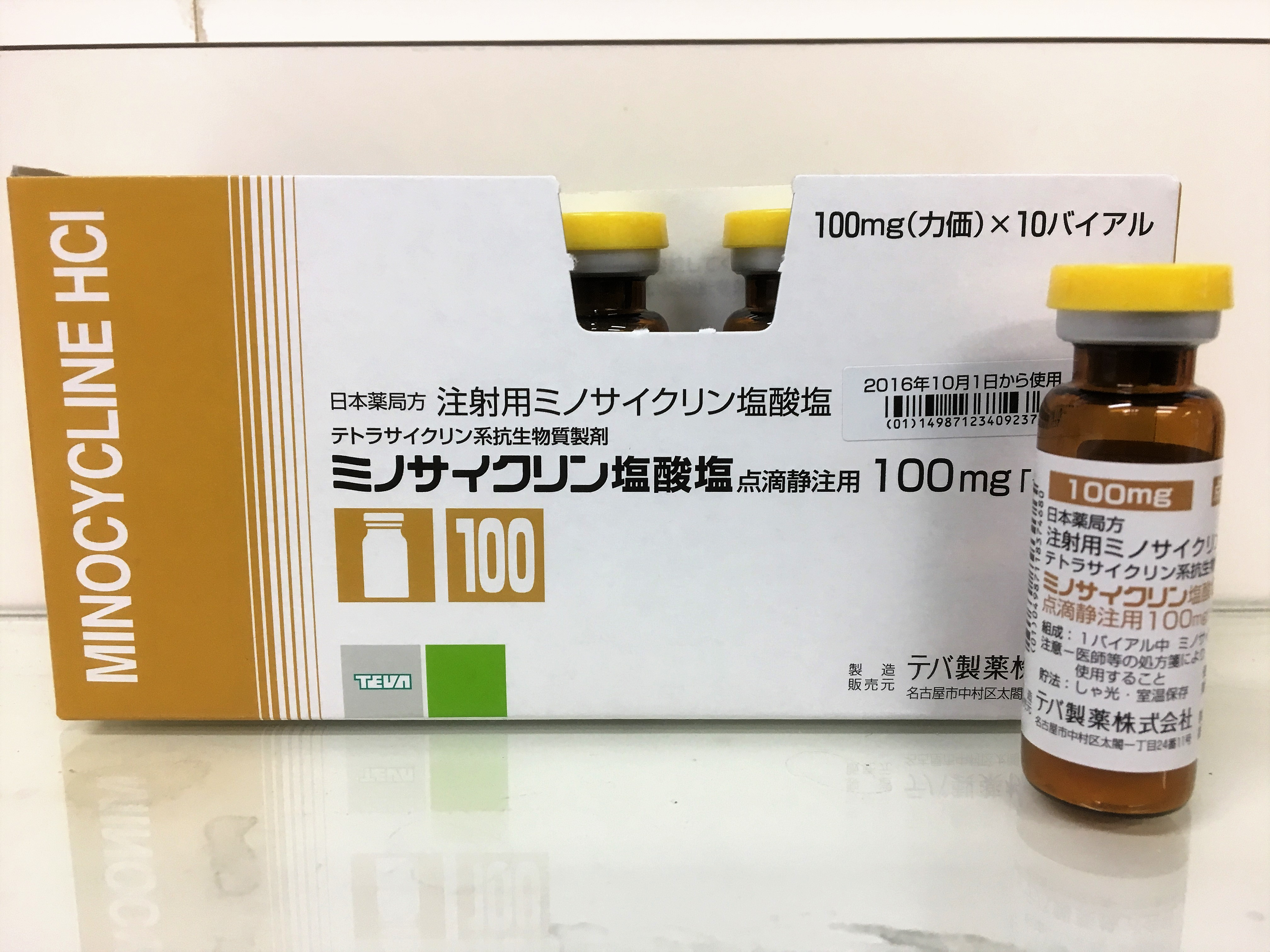 Minocycline-injection